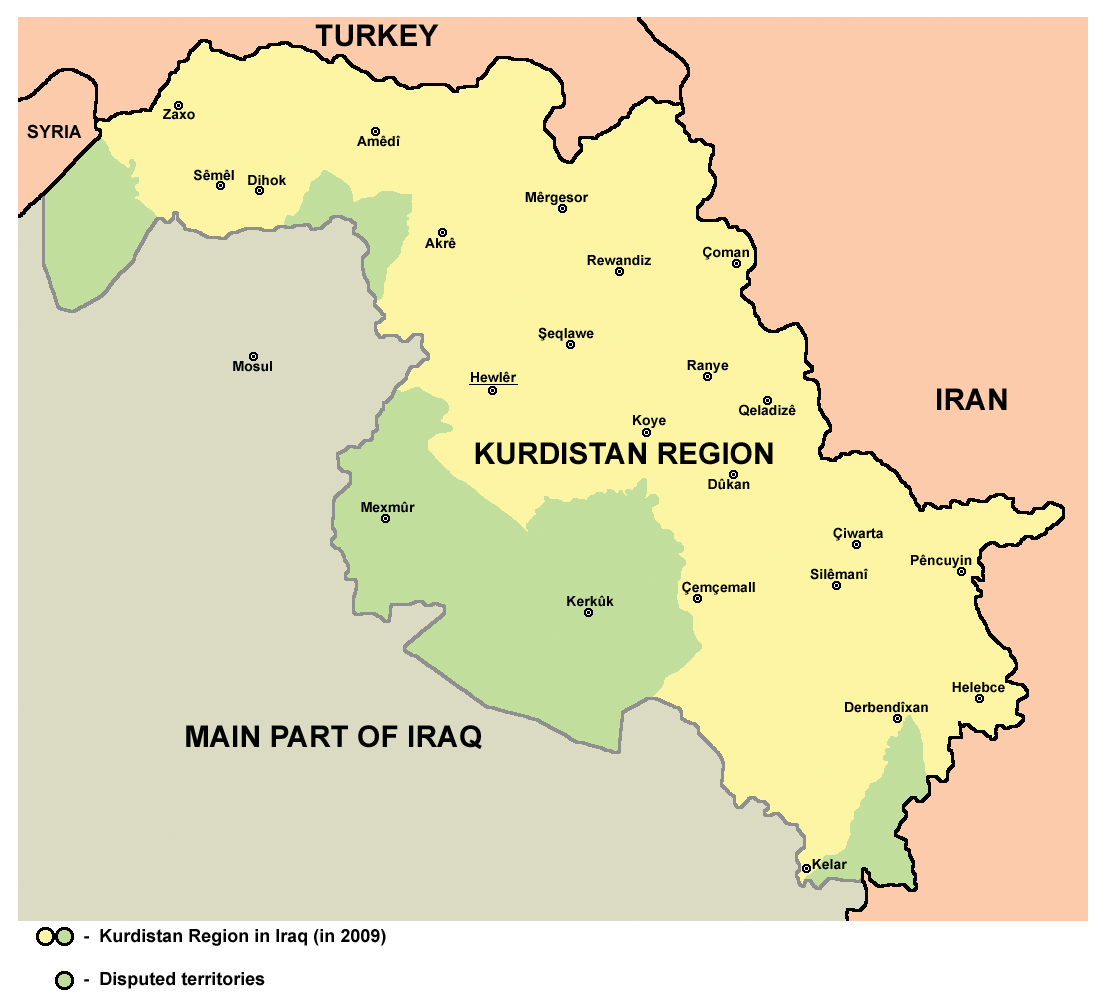 Map of Kurdistan Region in Iraq in 2009, including the disputed territories (Kirkuk with its province and other).